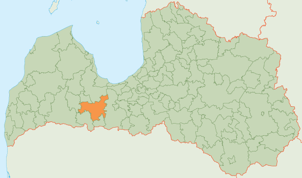 Map of Dobele